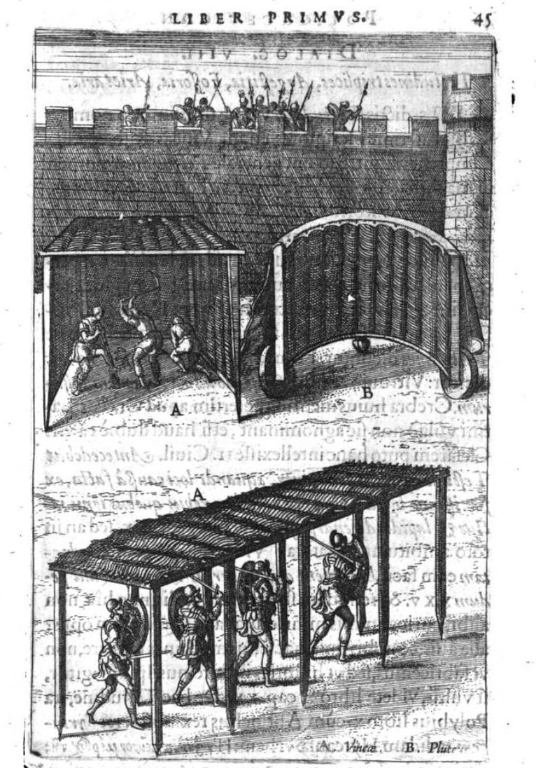 Roman Vineae and Pluteus